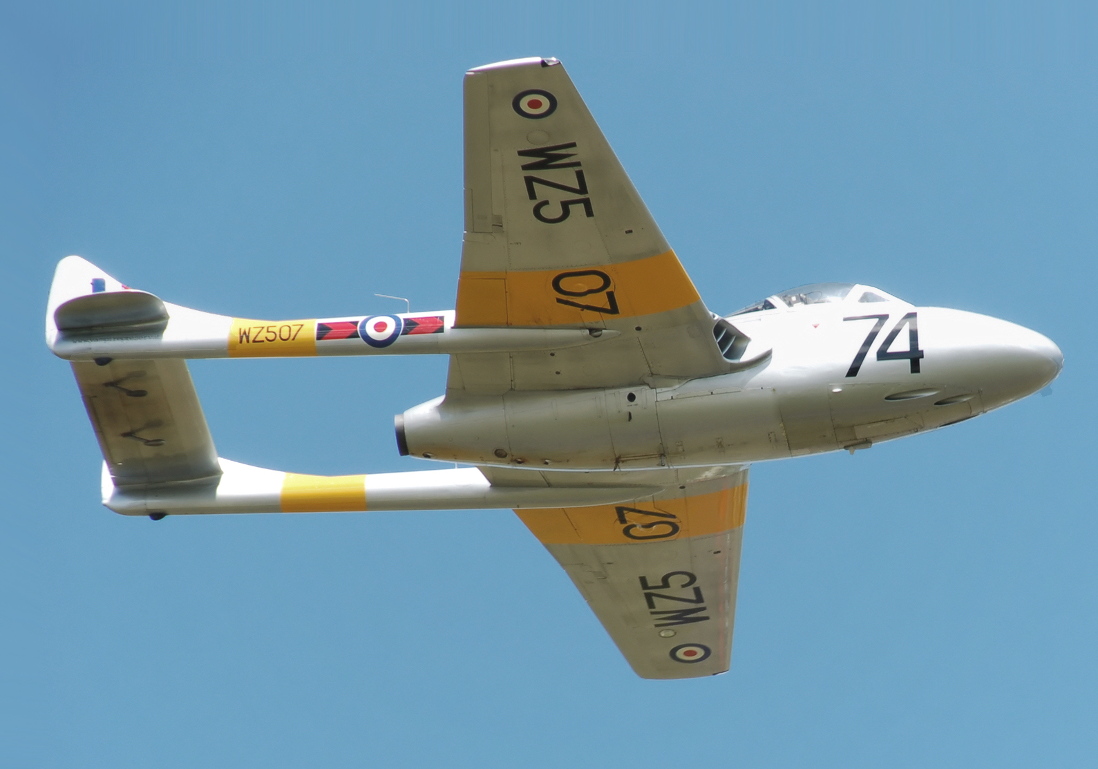 Preserved de Havilland Vampire T11 (ex-military serial WZ507, civil registration G-VTII) displays at the Cotswold Air Show at Cotswold Airport, Kemble, Gloucestershire, England. Built 1952 in Christchurch, Dorset, into RAF service 1953, left RAF 1969. This aircraft is painted in the colours of 219 Squadron in the 1950s and owned by the Vampire Preservation Trust.